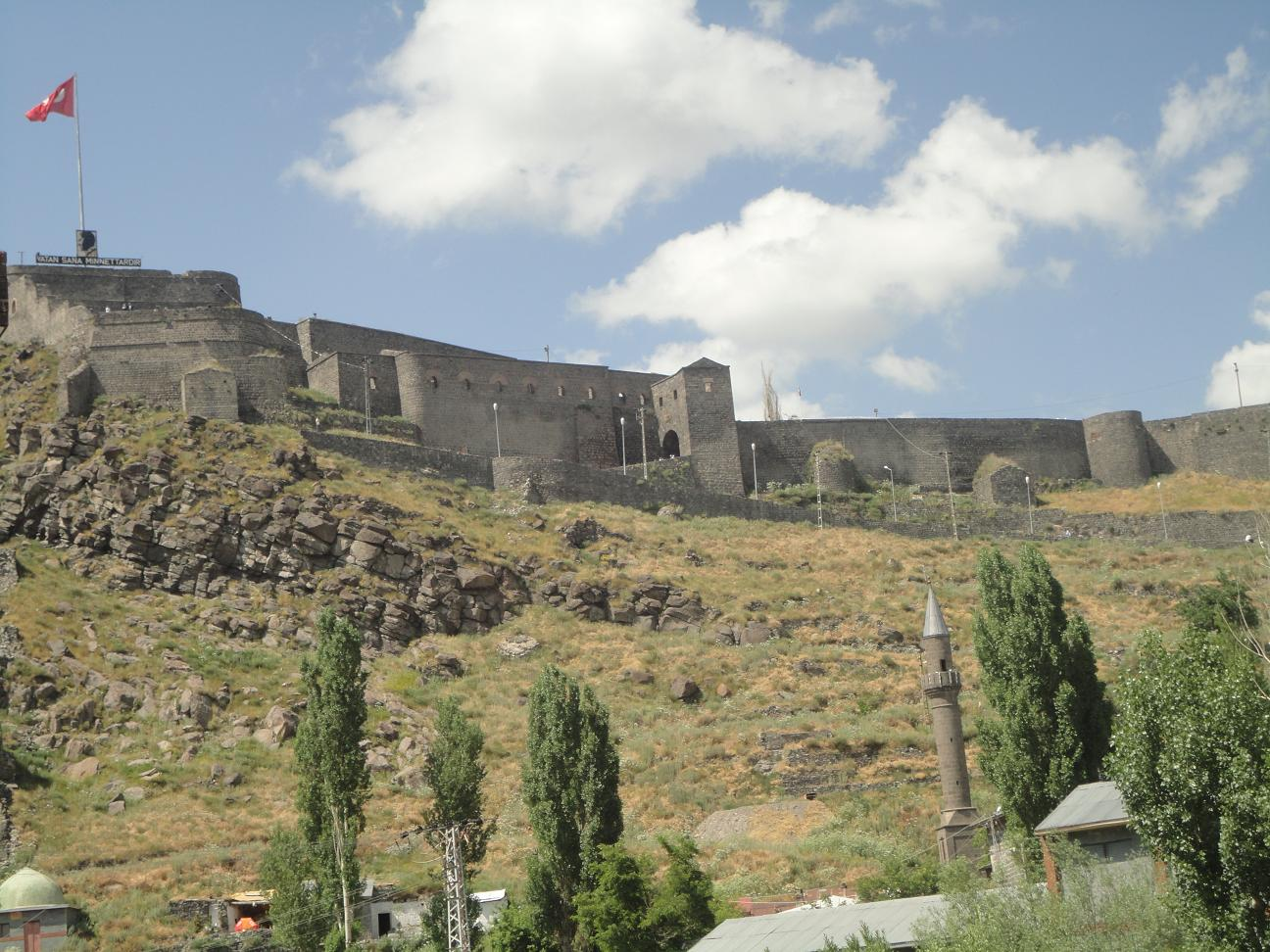 Castle of Kars